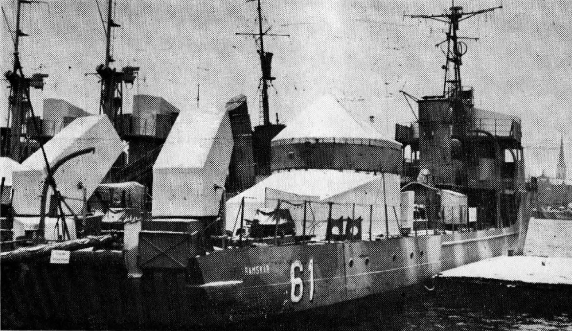 Swedish mine sweeper HMS Ramskär conserved in 1962.